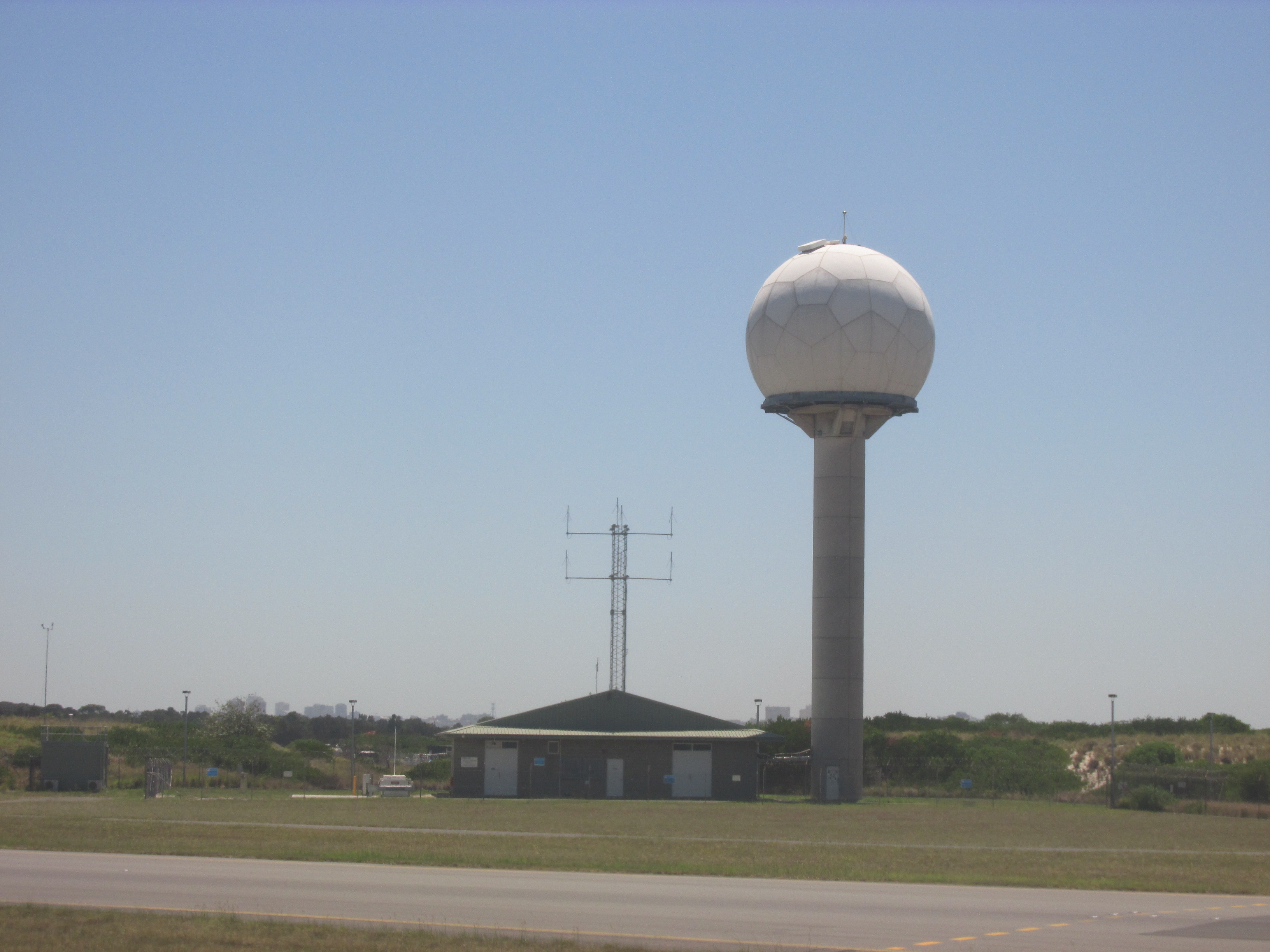 BOM weather station at Sydney Airport, Australia.